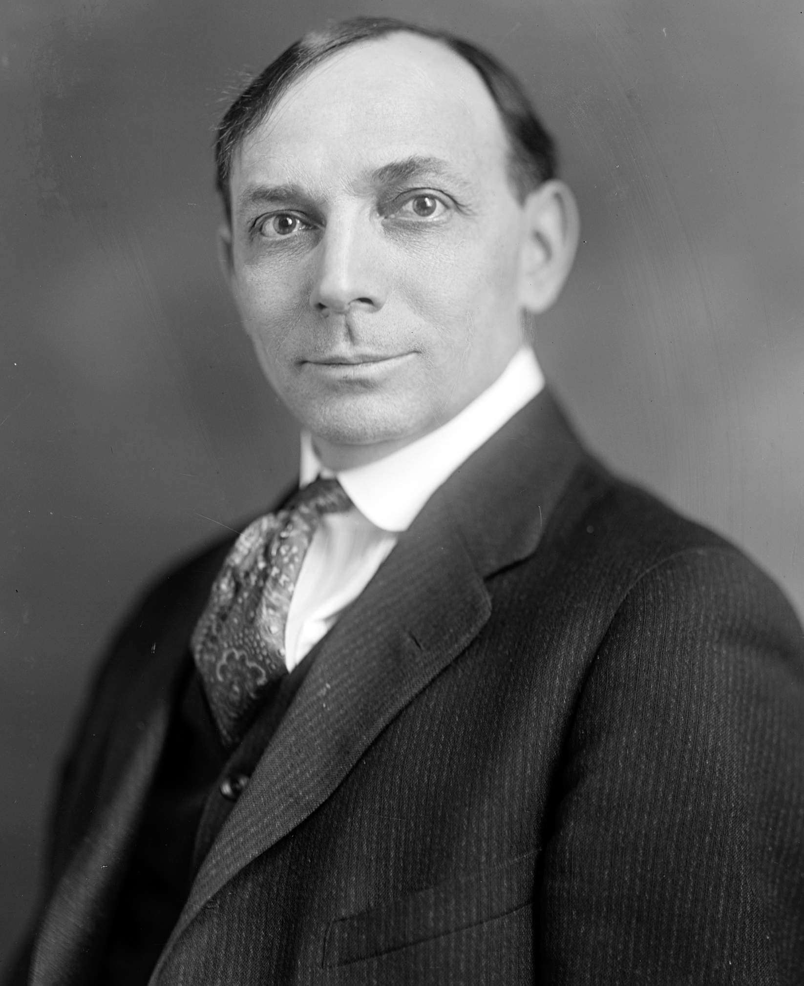 Milton A. Romjue, US Representative from Missouri